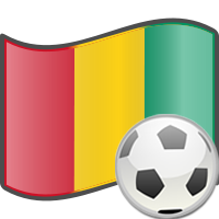 Icon for soccer from Guinea